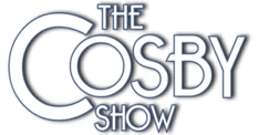 Official Logo of The Cosby Show (TV series from the United States).